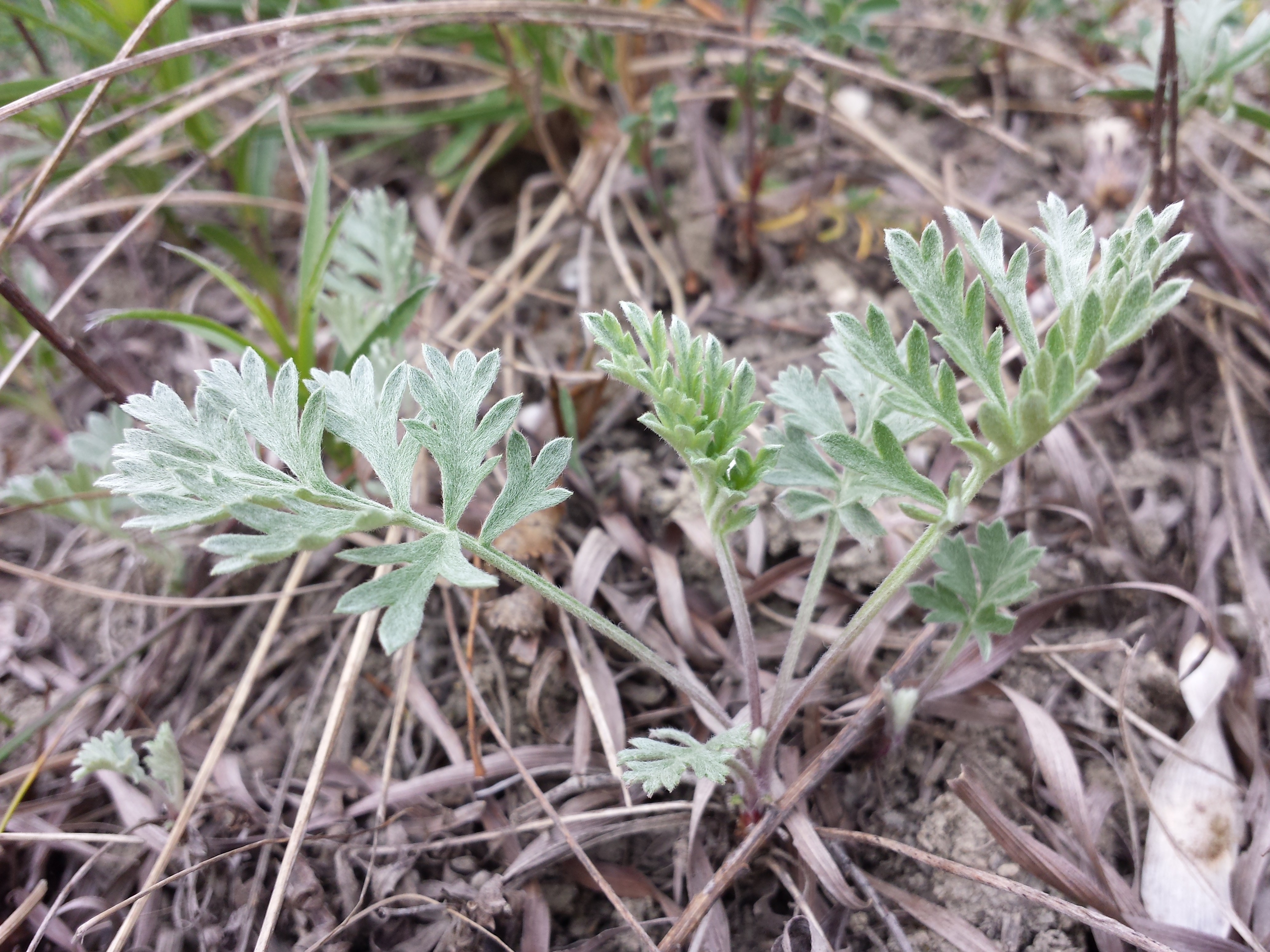 Habitus; second population planted during a LIFE project at the beginning of the 21st century Taxon: Artemisia pancicii (sensu Fischer et al. EfÖLS 2008 ISBN 978-3-85474-187-9) Location: Bisamberg, district Korneuburg, Lower Austria - ca. 300 m a.s.l. Habitat: rock steppe